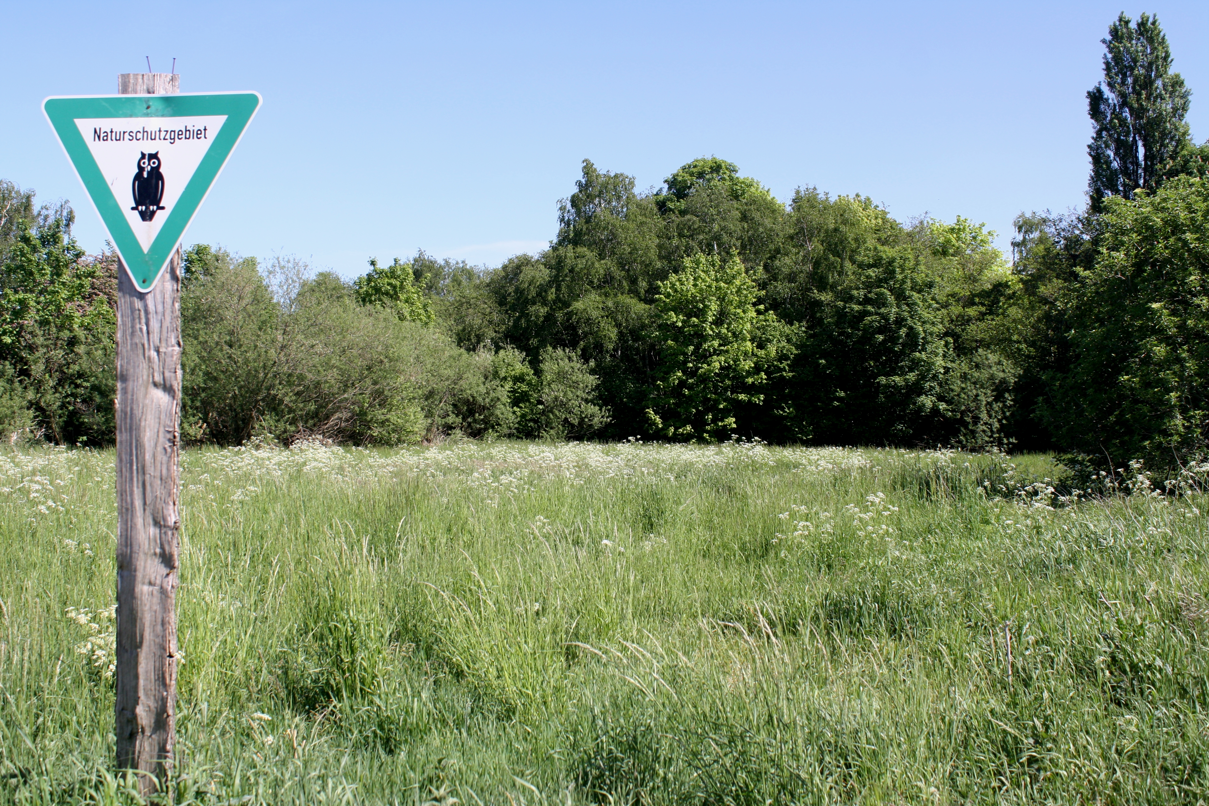 Nature reserve Idehorst, Berlin.